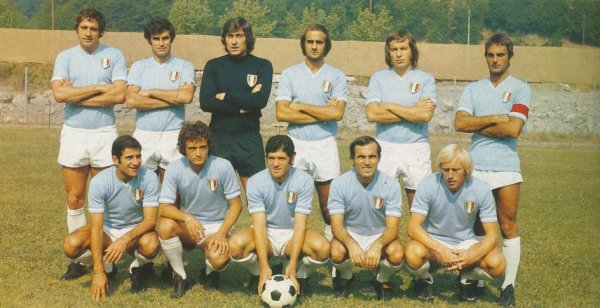 Photograph of the senior association football team of S.S. Lazio Italian champion 1973-74.